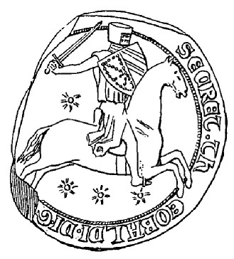 Theobald II of Navarre